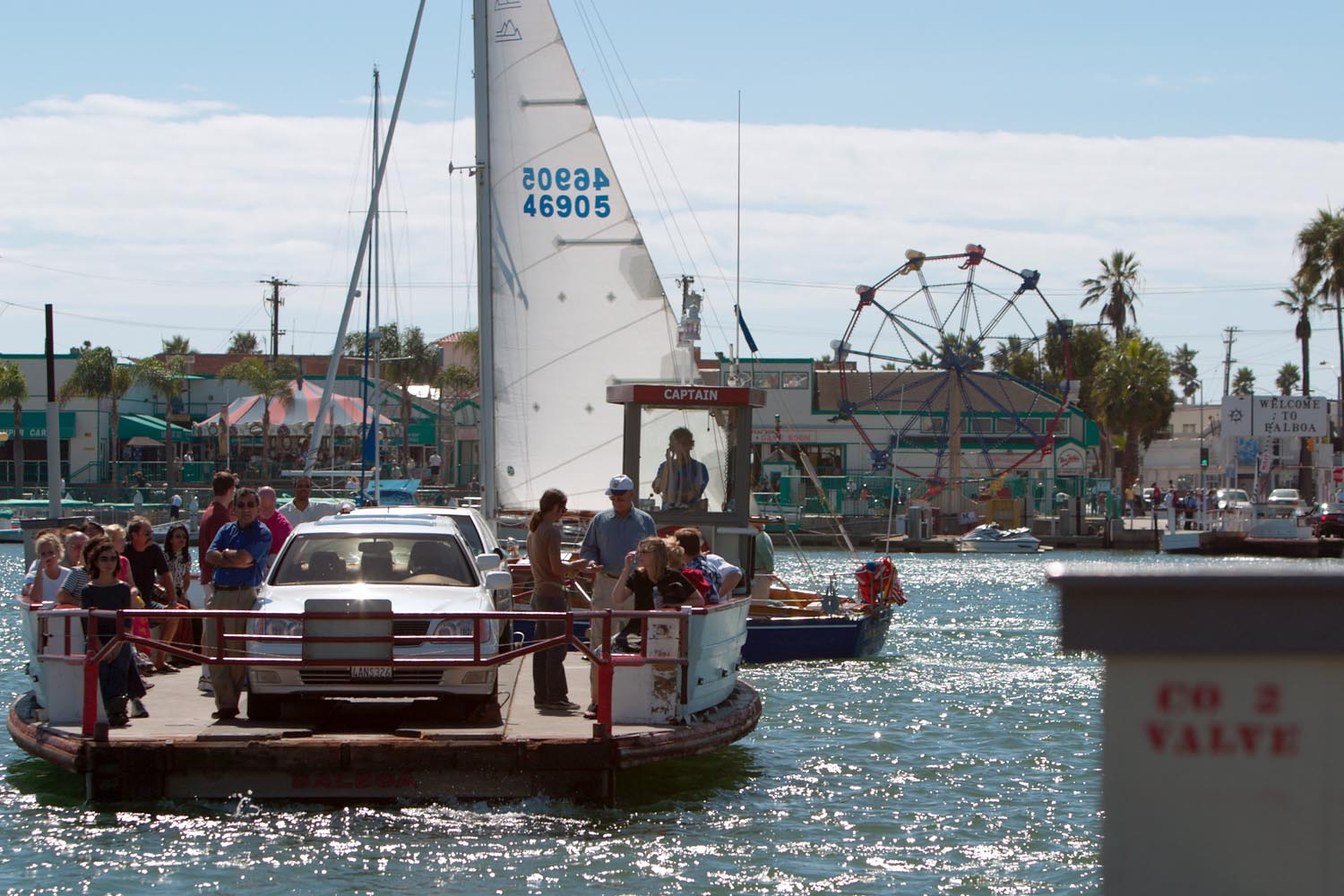 The Balboa Island Ferry. Taken with a Canon EOS D60 and 70-200 F2.8 IS lens.